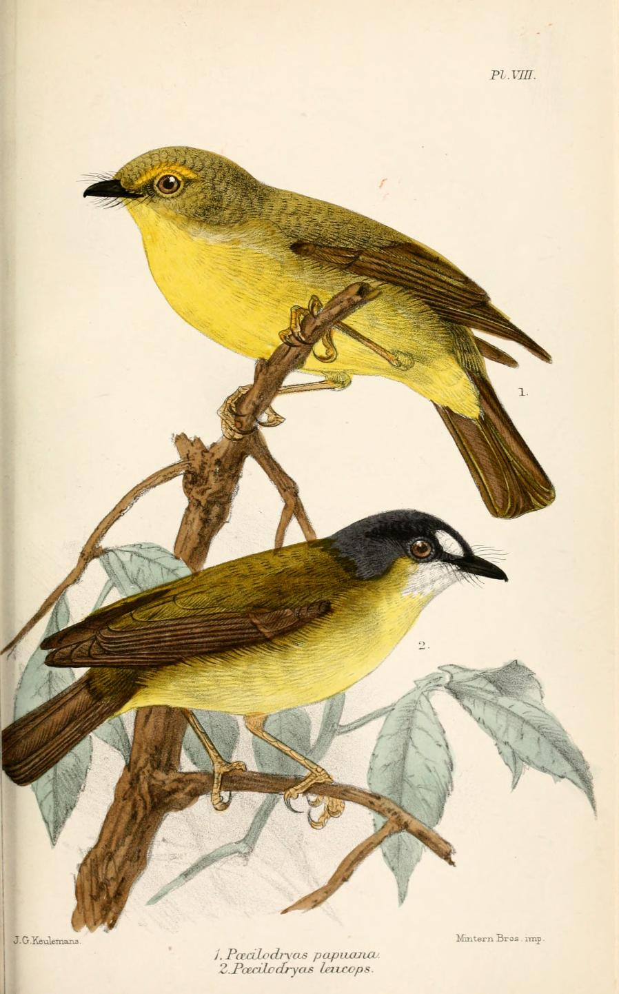 Pacilodryas papuana = Microeca papuana, Canary Flyrobin (above); and Pacilodryas leucops = Tregellasia leucops, White-faced Robin (below)